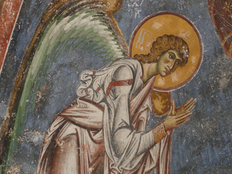 Fresco from St, Arhangel Gabriel from St. George's Church, Kurbinovo, Macedonia